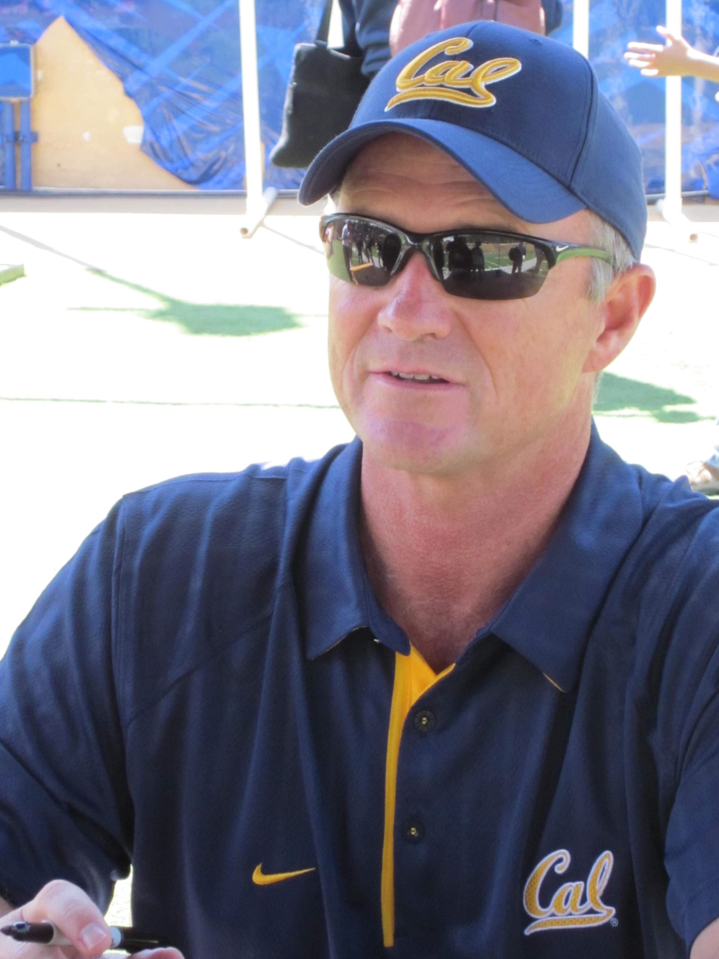 Cal head coach Jeff Tedford at Cal Fan Appreciation Day in Memorial Stadium in Berkeley, California.